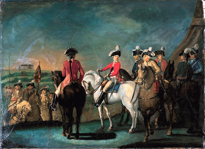 19-year-old Crown Prince Frederik(Frederik VI of Denmark) surrounded by his staff and officers of the Royal Horse Guard. In the background Frederiksberg Palace. Painting by Christian August Lorentzen.